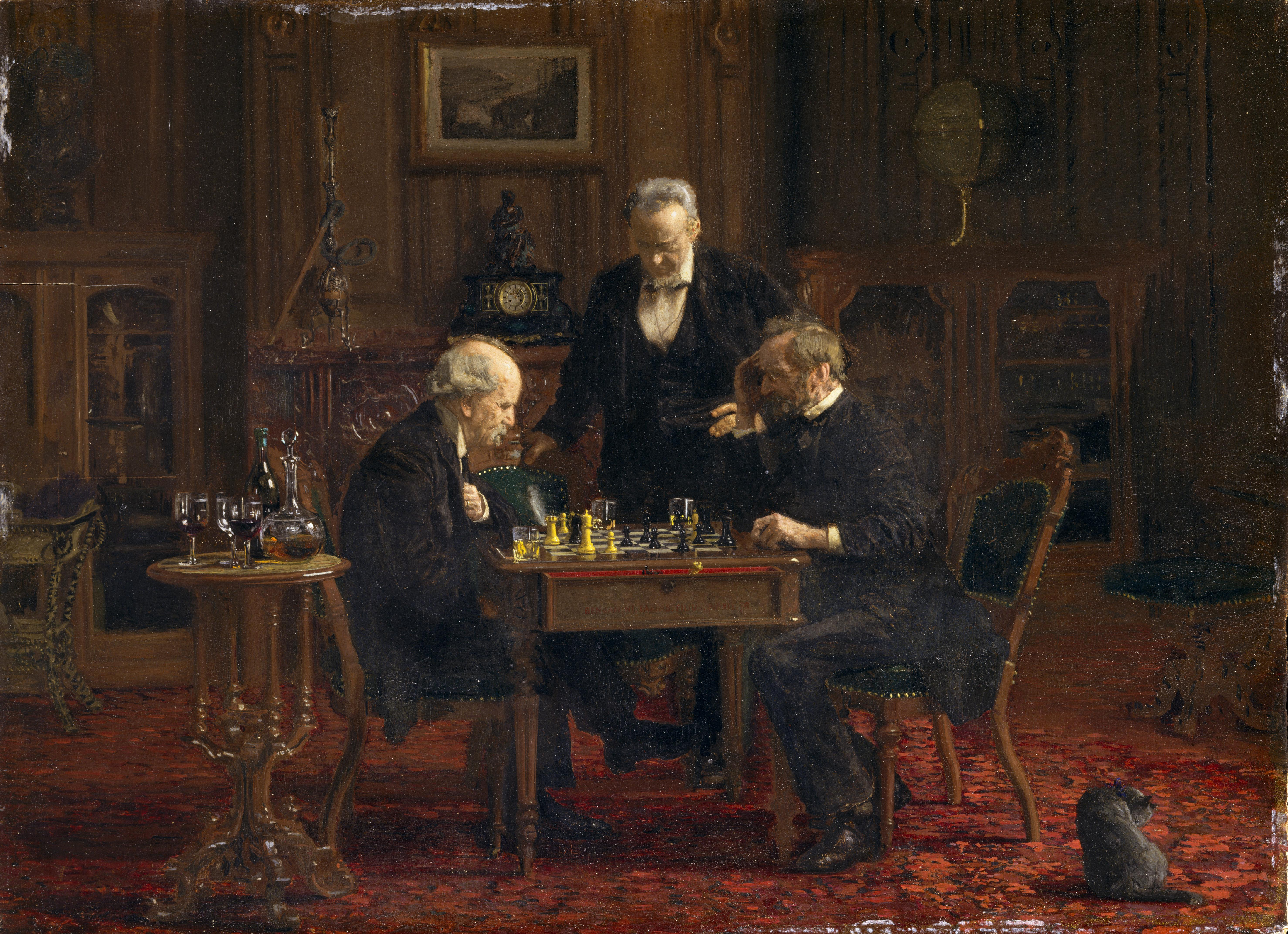 Scene depicting a chess match. The players are Bertrand Gardel on the left, and George Holmes on the right. The artist's father, Benjamin Eakins, stands and watches the match.